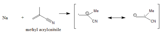 Mechanism for initiation of addition anionic polymerization through electron transfer